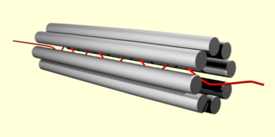 Mass spectrometry, octopole analyzer